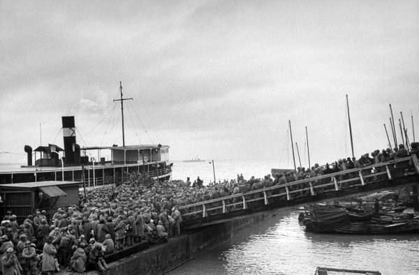 This picture is taken in 1946, the copyright has expired